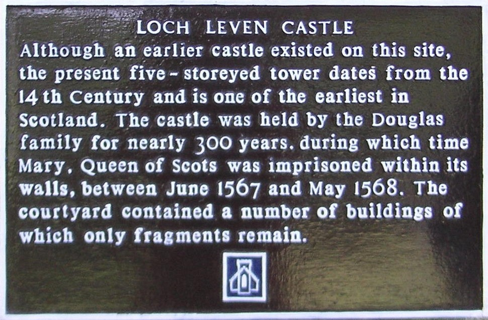 Loch Leven Castle, Perth and Kinross, Scotland.